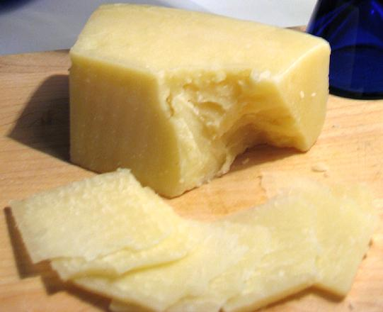 Pecorino Romano. Copied from Image:Pecorino Romano on board.jpg, and cropped and converted to PNG with Microsoft Paint.